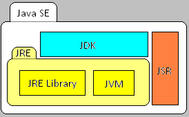 Software Architecture of JavaSE (ex-J2SE) with JSR, JDK & JRE